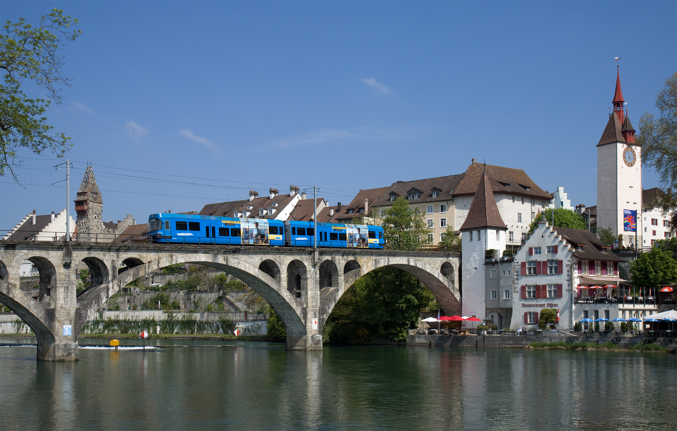 Bremgarten-Dietikon-Bahn train type Be 4/8 on the bridge crossing the river Reuss at Bremgarten, as seen from the east.